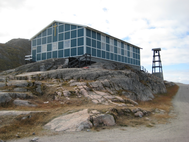 Ilulissat: Church from Qllissat